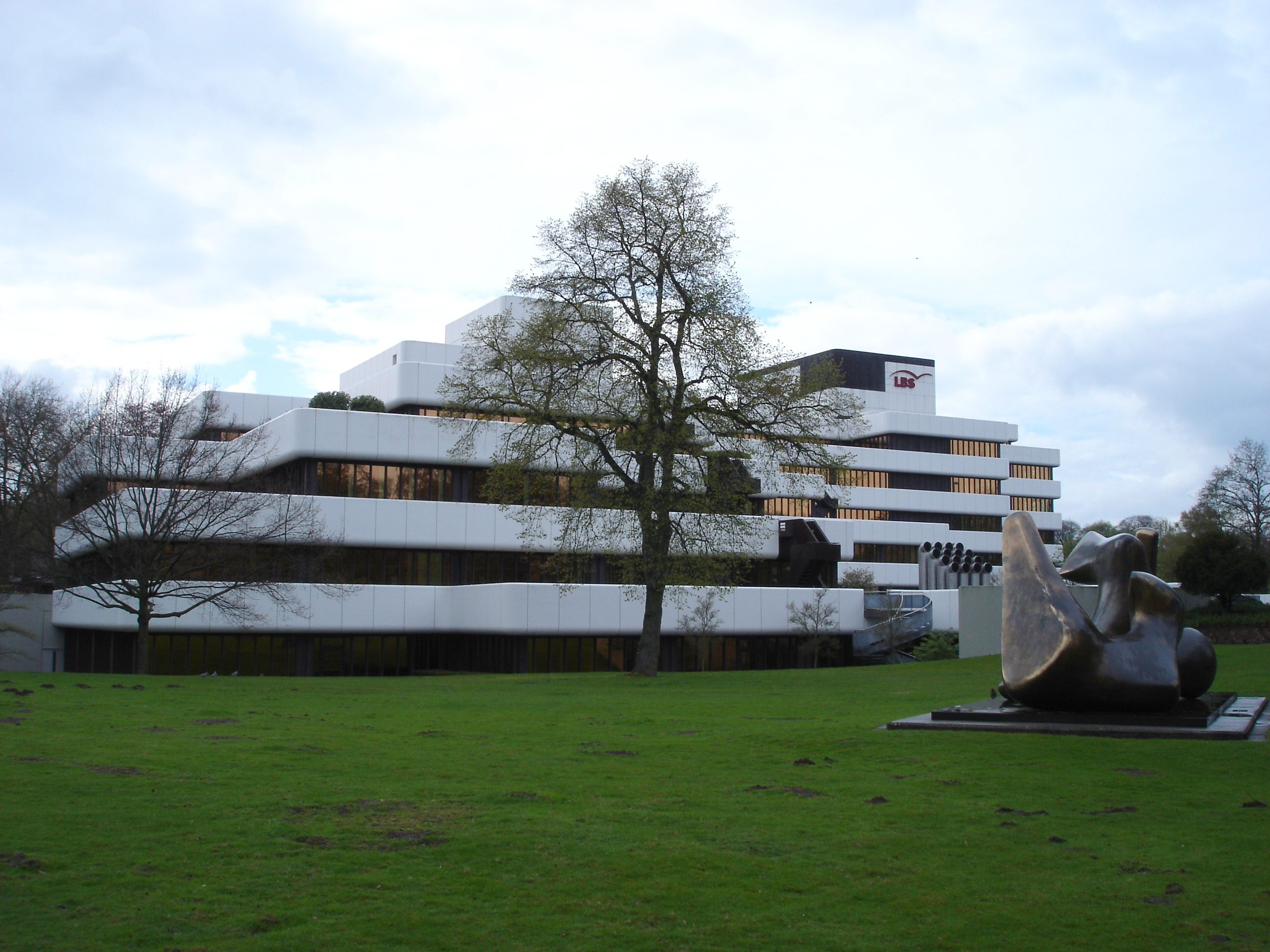 Building of the LBS West in Münster, Westphalia, Germany